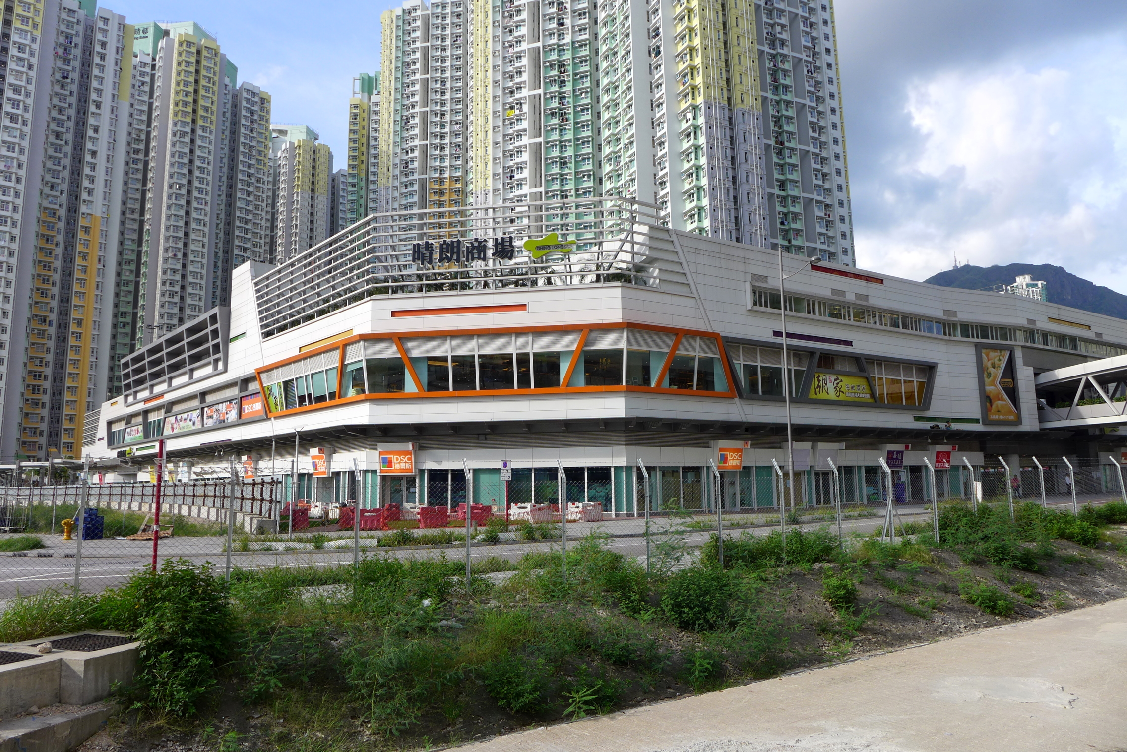 Ching Long Shopping Centre Zone A